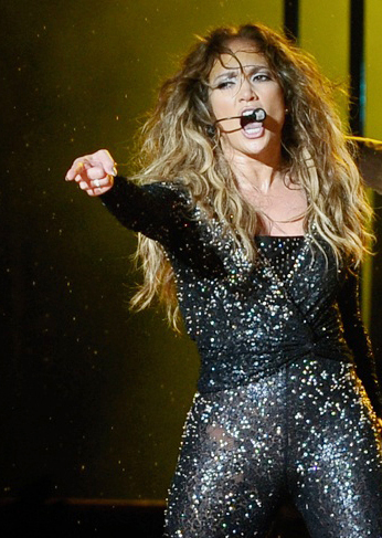 Kuala Lumpur, 03/12/2012 Jennifer Lopez Dance Again World Tour Live in Malaysia 2012 at Stadium Merdeka..Pic Firdaus Latif